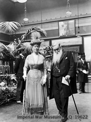 Portait of General Sir Dighton MacNaghton Probyn